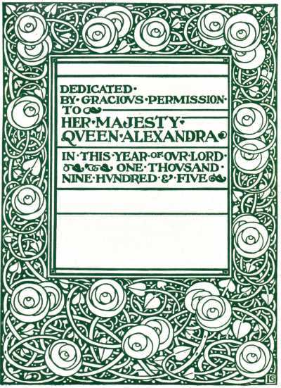 1905 print after page of Women painters of the world, from the time of Caterina Vigri, 1413-1463, to Rosa Bonheur and the present day, by Walter Shaw Sparrow, The Art and Life Library, Hodder & Stoughton, 27 Paternoster Row, London